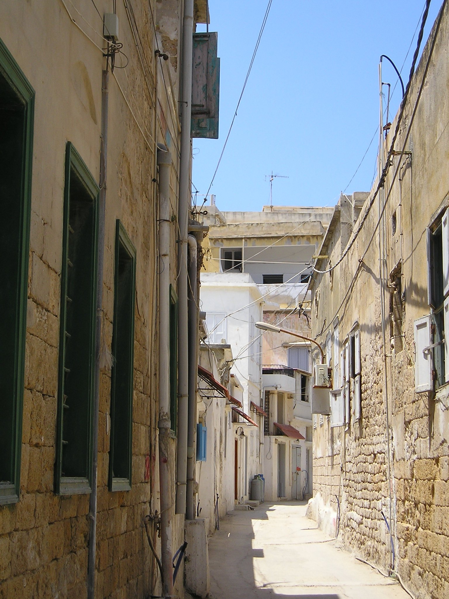 Tyre, Lebanon - a typical narrow street in the Christian quarter